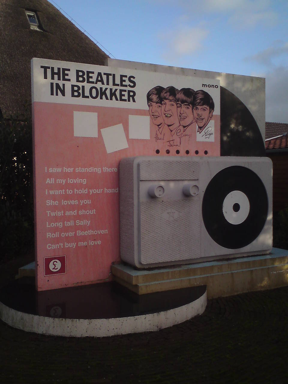 Work: The Beatles; Artist: Harma Heikens; Year: 1999; Street: Boekert/Oosterblokker; Material: Unknown.